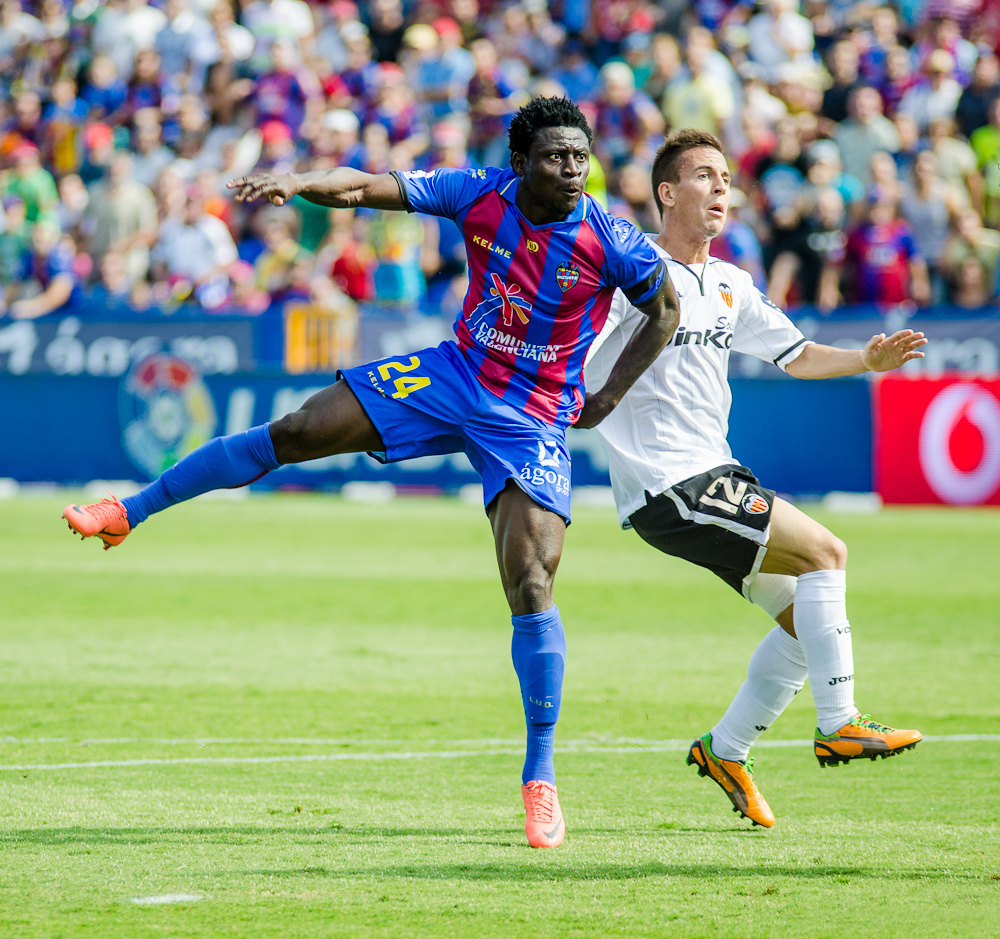 Martins GOAL vs. Valencia CF